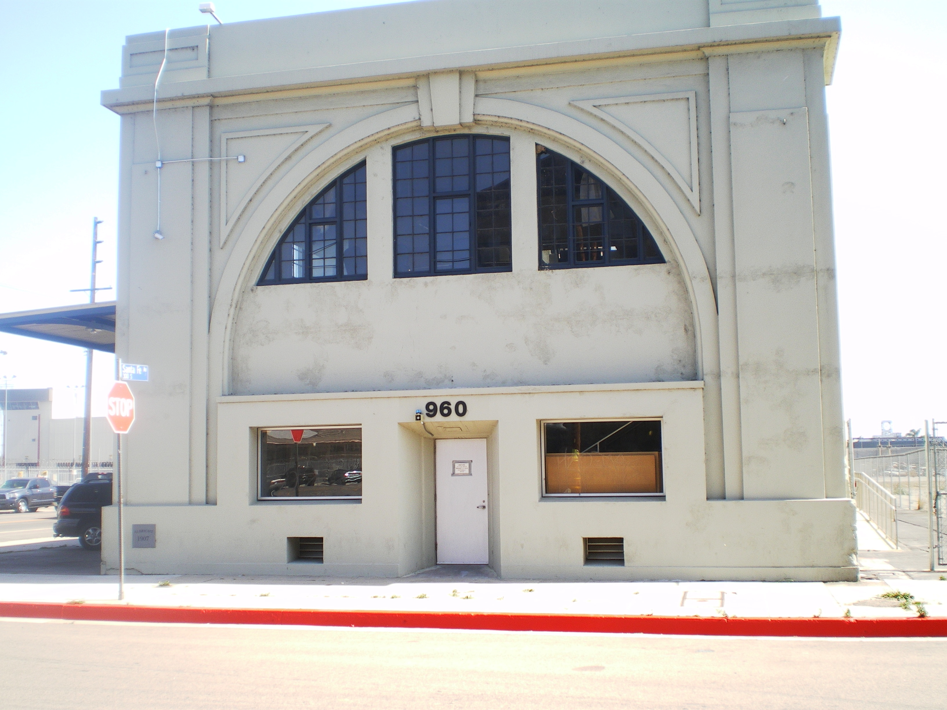 Santa Fe Freight Depot, 970 E. 3rd St., Los Angeles, California